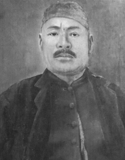 Nepalese architect Jogbir Sthapit who designed Narayanhiti Royal Palace in 1886 and supervised the renovation of the Swayambhu stupa in 1918 in Kathmandu.